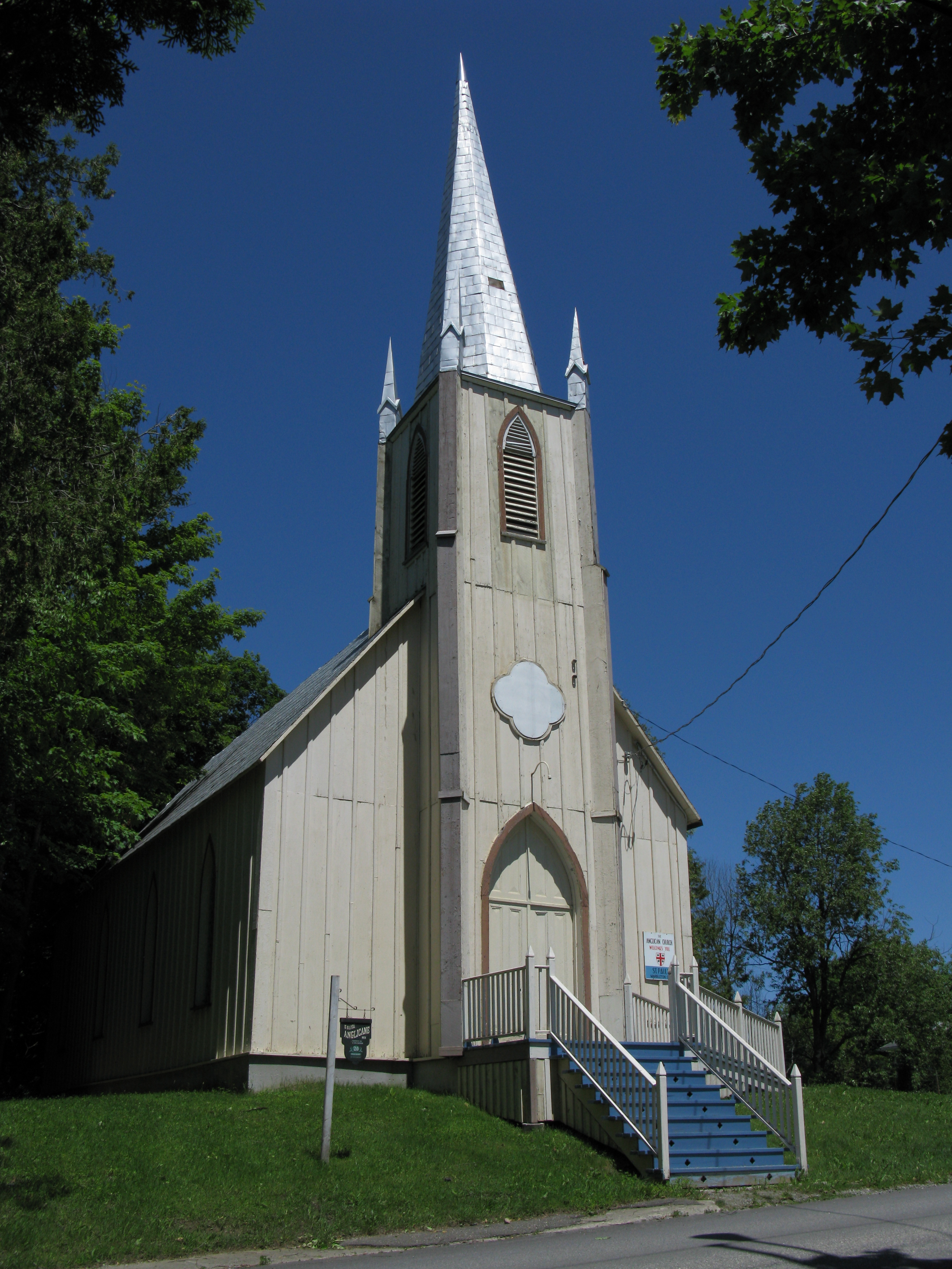 St. Paul's Anglican church in Dudswell (formerly Marbleton), Quebec, Canada. It was built by Rev. Chapman in 1851.